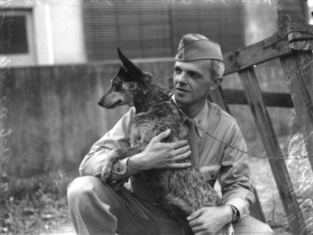 An American soldier with an Australian Cattle Dog, taken in Queensland Australia during WWII